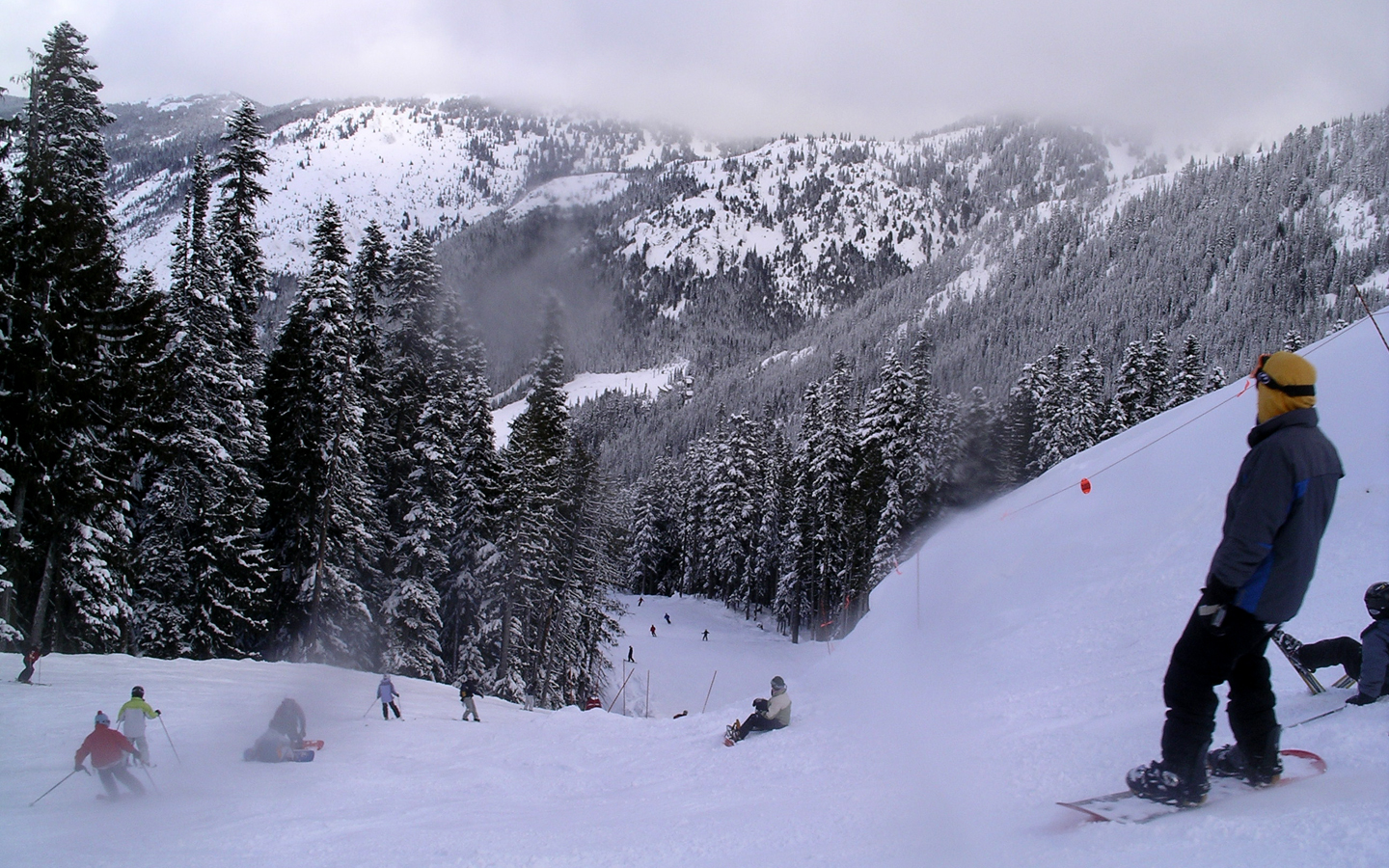 Skiers and snowboarders on Crystal Mountain, Washington.